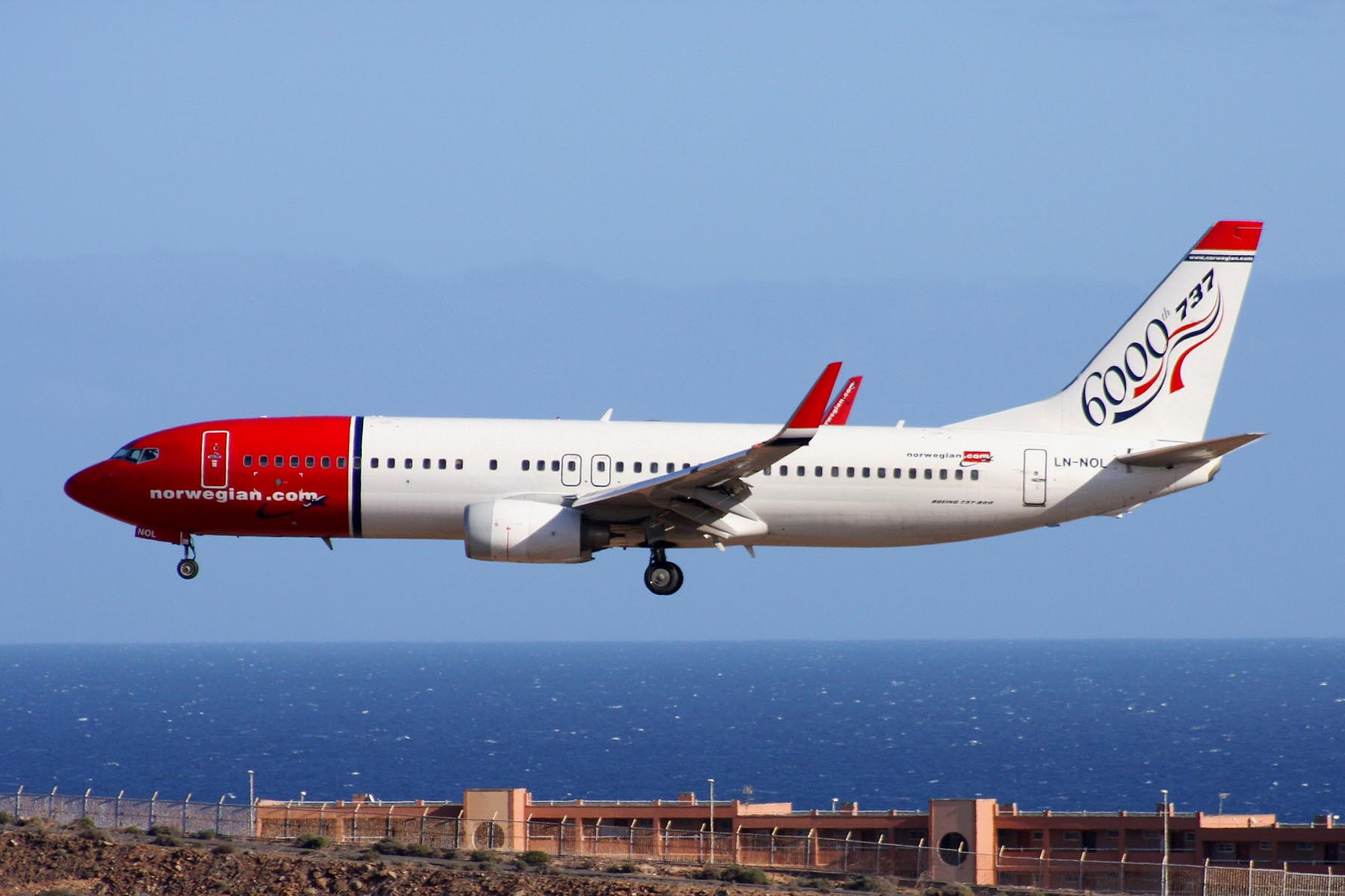 '6000th 737' tail logo